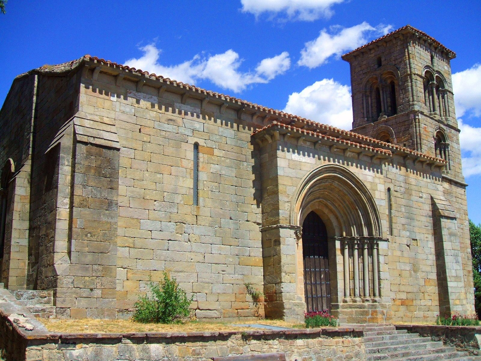 Ermita de Santa Cecilia, Aguilar de Campoo (Palencia, Castilla y León, España)